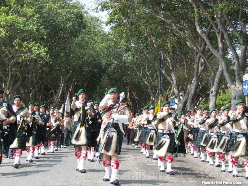 1st Hamrun Pipe Band - Malta Scouts Annual Parade 2009